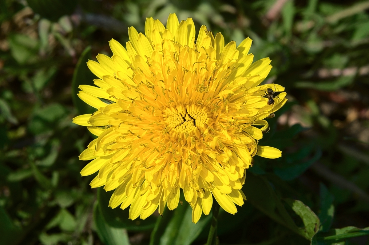 Taraxacum Officinale